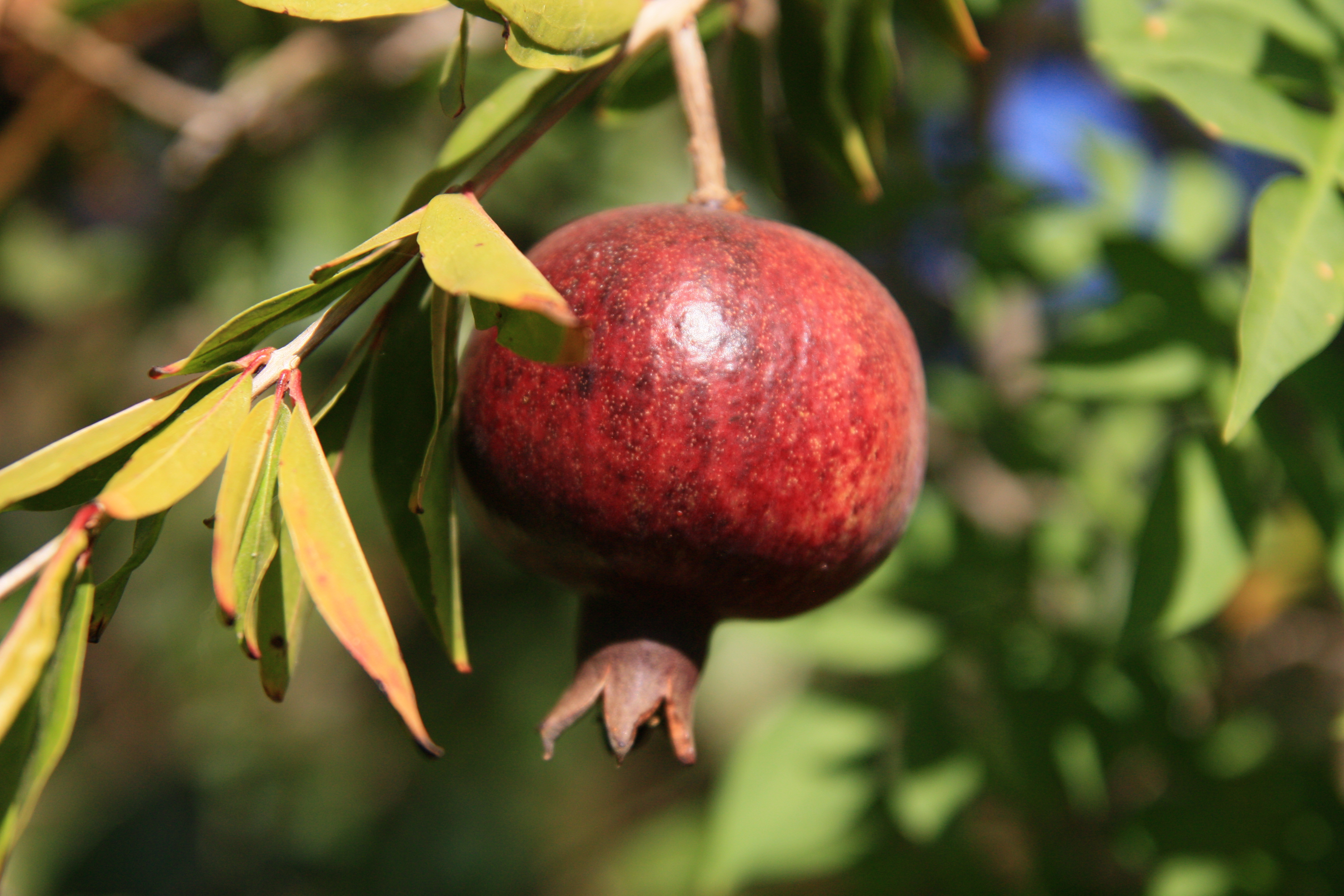 fruit trees